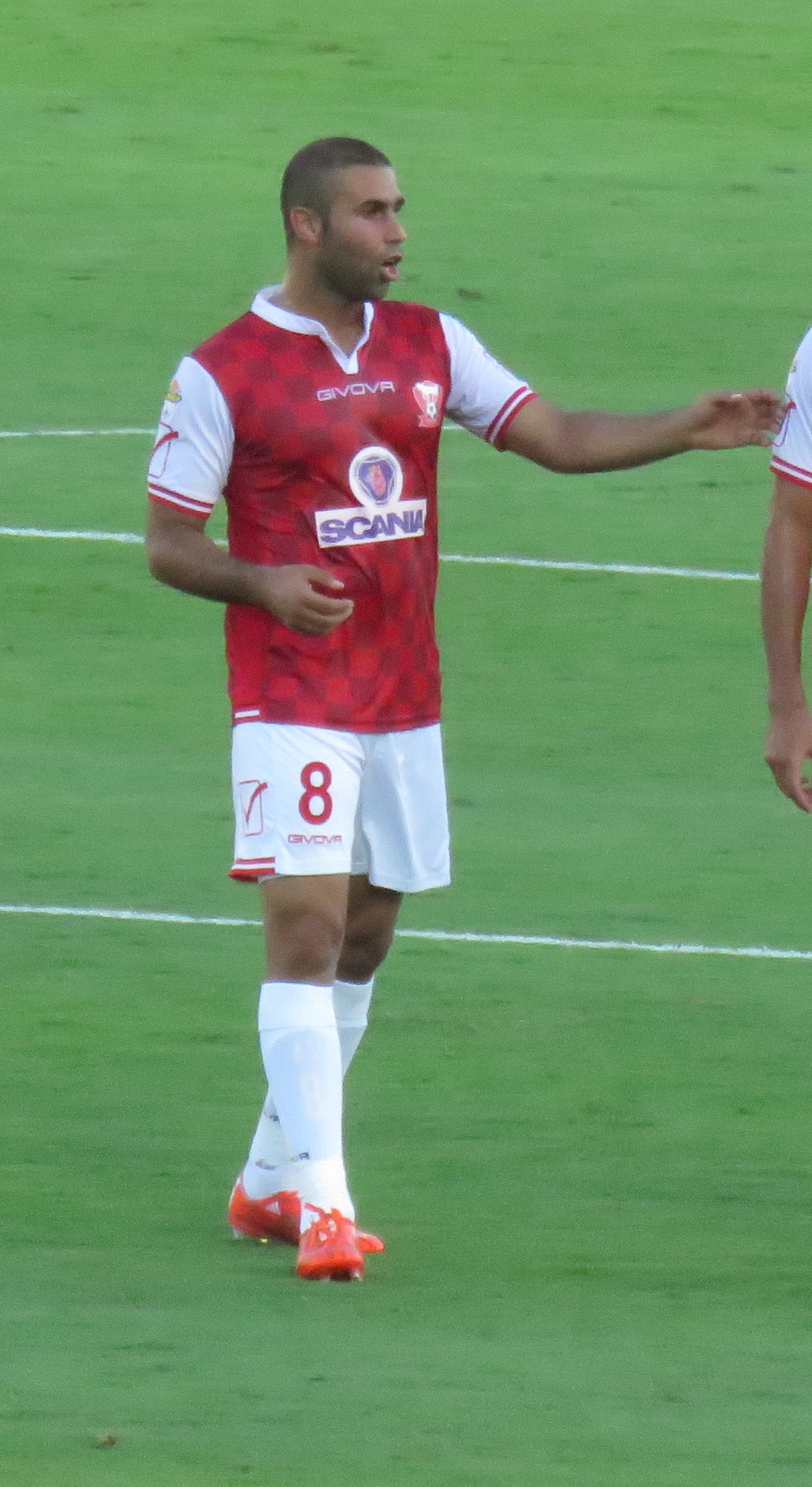 Maccabi Tel Aviv VS. Bnei Sakhnin 22/08/2015